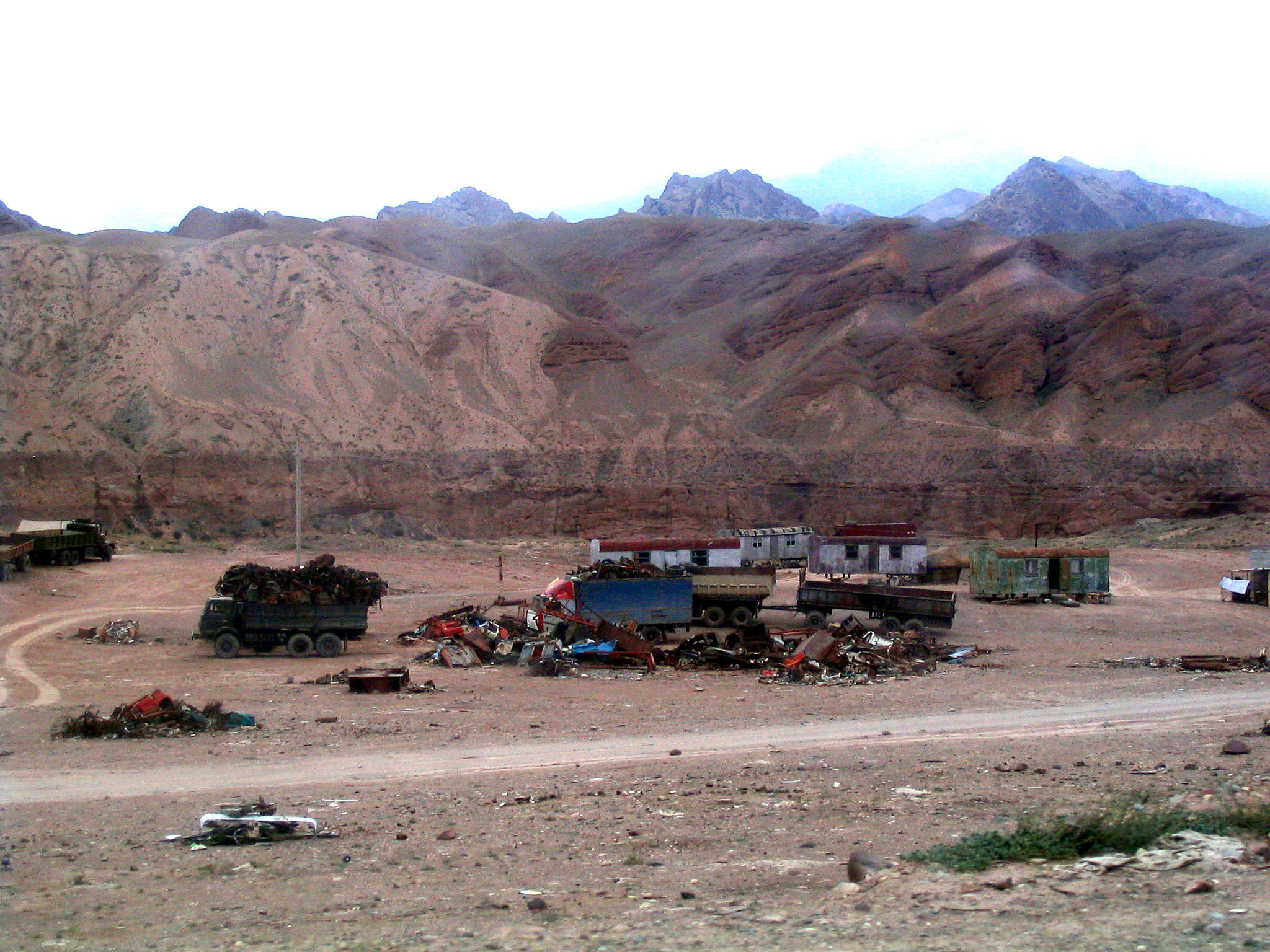 The last photo on the Kyrgyz side, close to the grim Irkeshtam border crossing